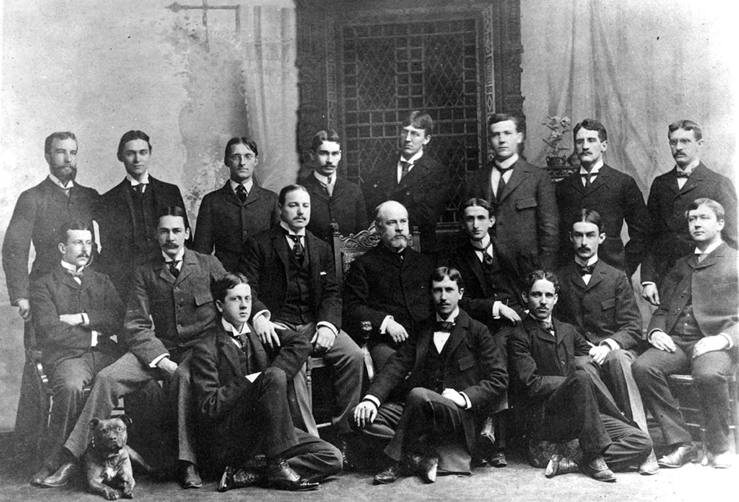 Photograph of first medical school graduating class of Johns Hopkins University, 1897. Dr. William H. Welch is in the center.